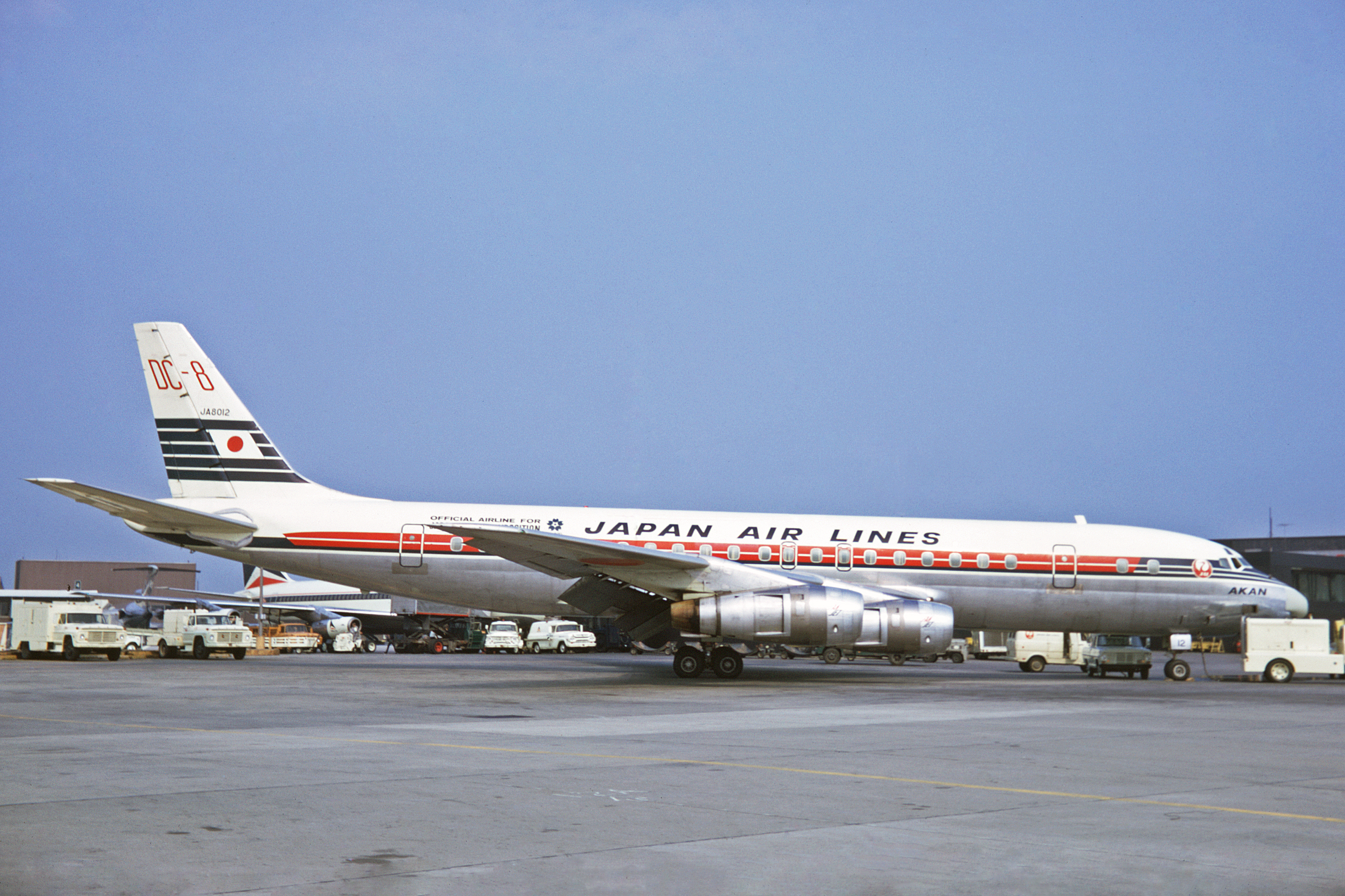 "Akan". Sadly crashed in New Delhi on 14 June 1972 (85k), RIP.